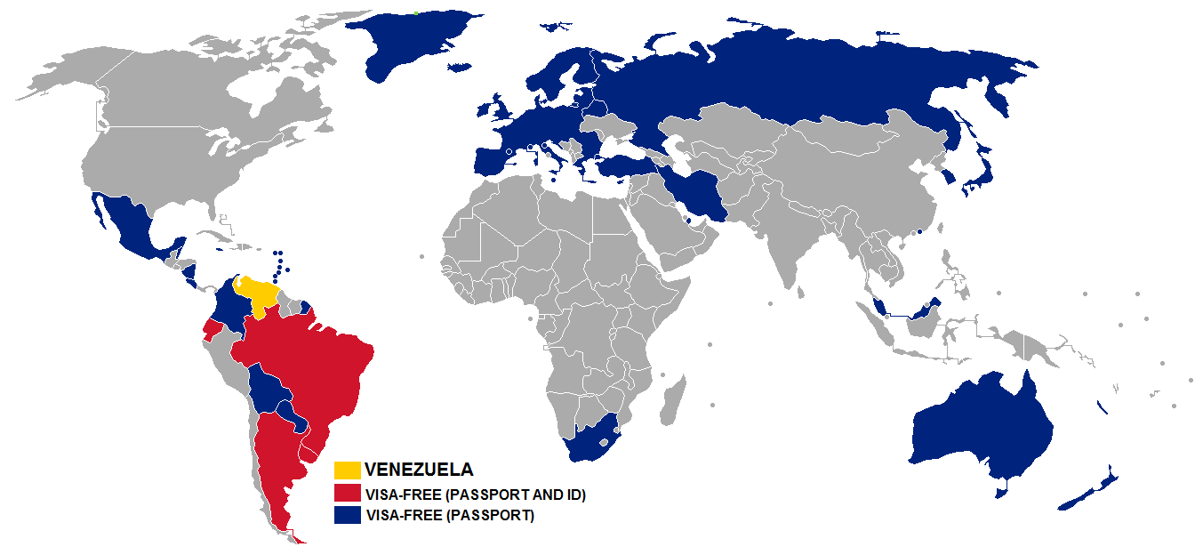 Visa policy of Venezuela Venezuela Visa-free (may enter with passport or ID) Visa-free (may enter with passport)